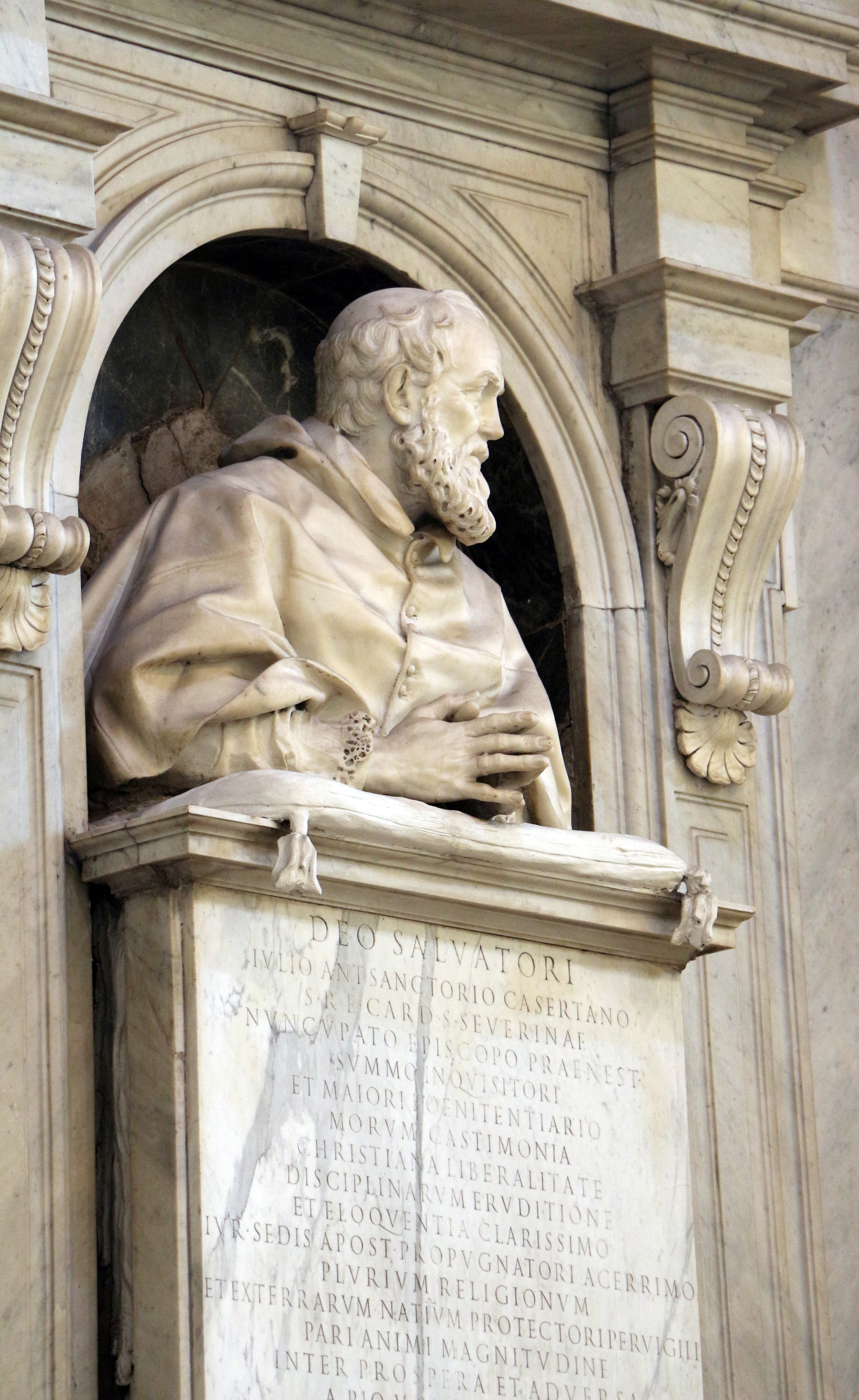 San Giovanni in Laterano (Rome) - Interior